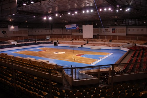 The Ninoy Aquino Stadium.